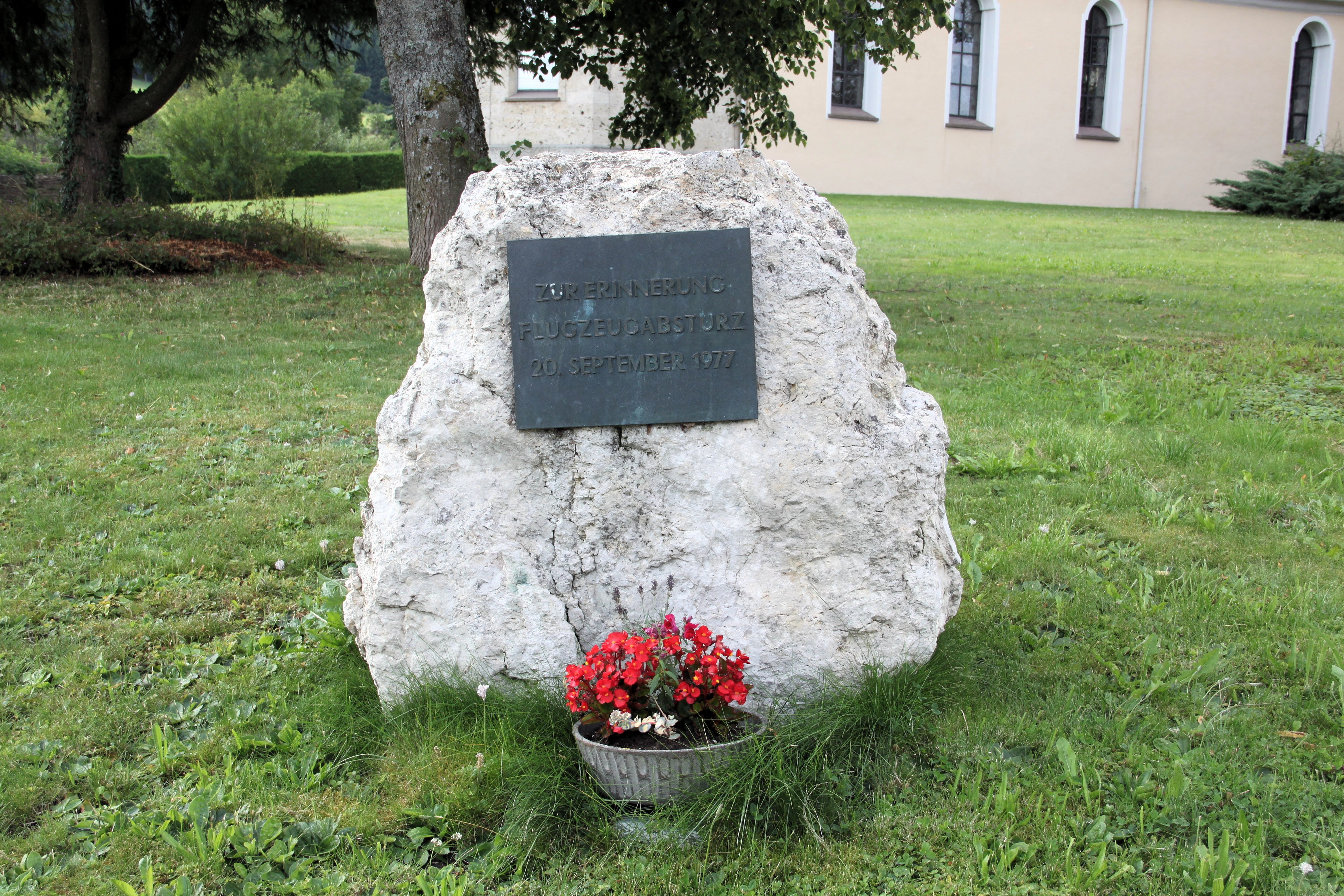 Weilen unter den Rinnen: Memorial stone commemorating the airplane crash of 20 September 1977